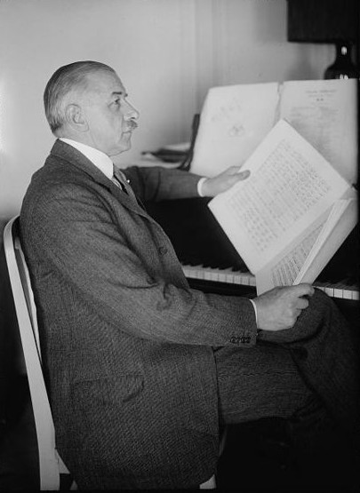 Rudolph Ganz (1871 – 1972), Swiss pianist, conductor and composer